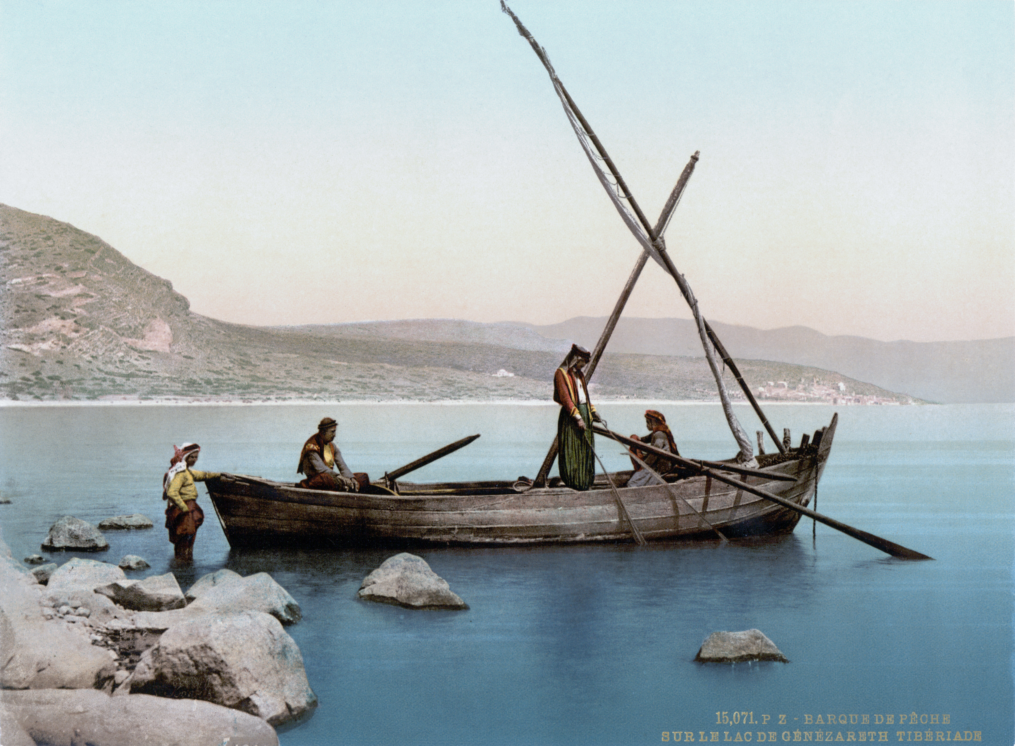 Israel, Sea of Galilee (Lake of Tiberias)